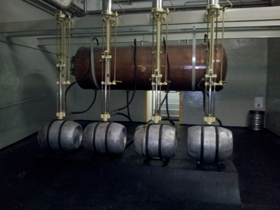 Технологии приготовления пива в музее уделяется много внимания.